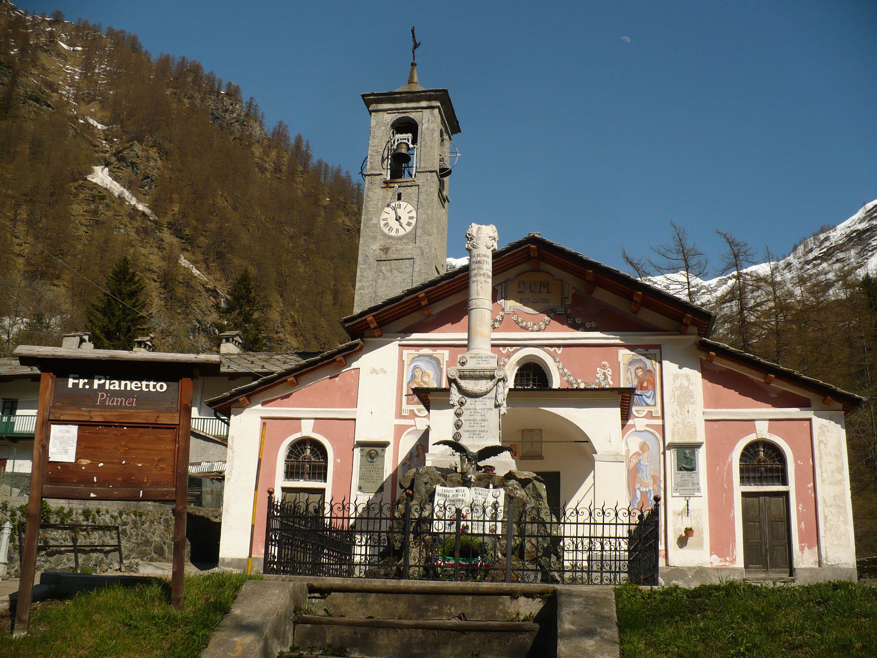 Pianetto, Valprato Soana, Soana valley, Province of Turin, Italy